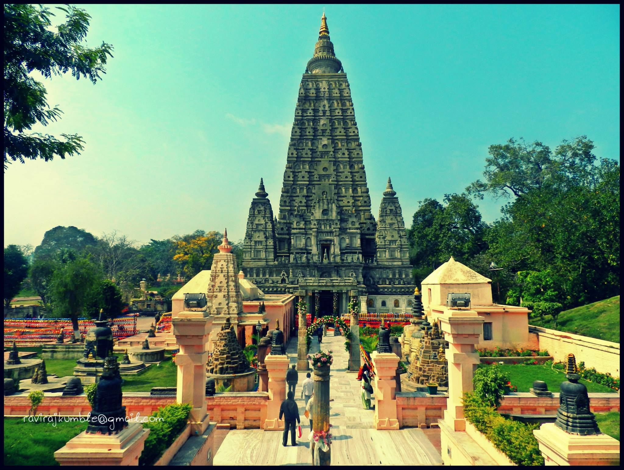 Holy temple of buddha